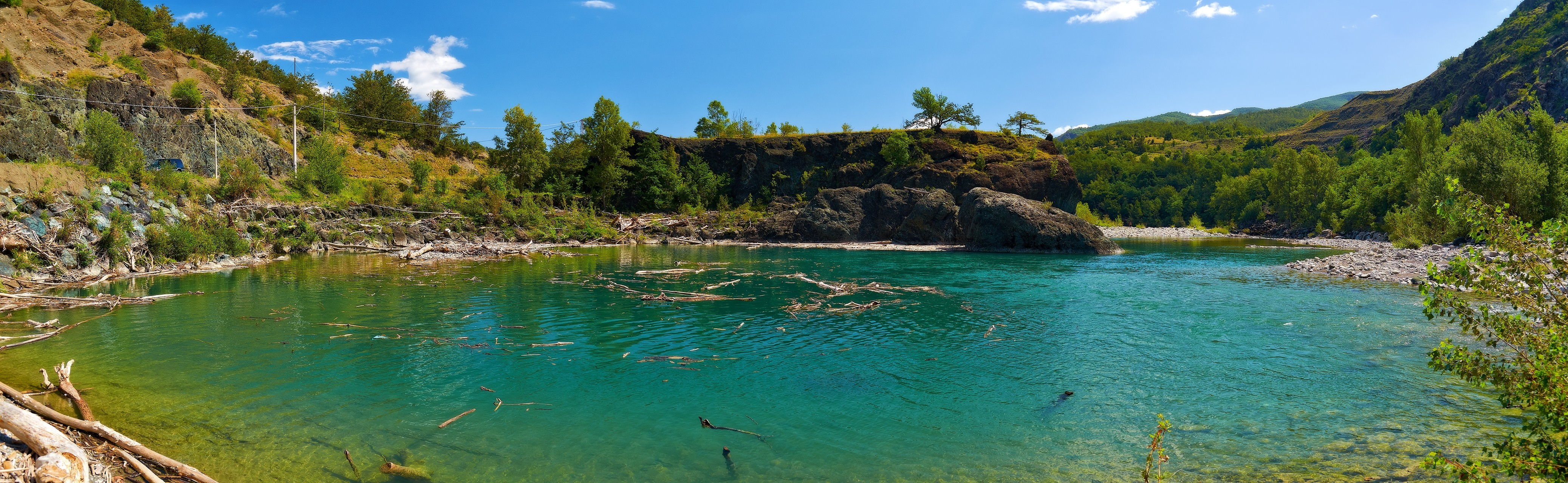 Fiume Taro